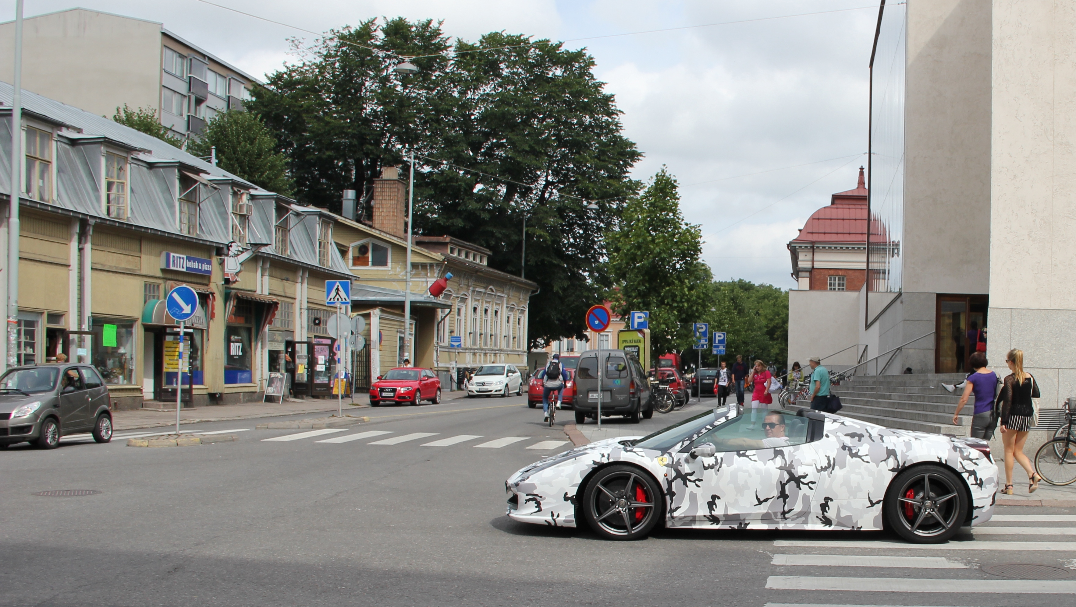 Linnankatu (Castle Street) in Turku, Finland with Ferrari 458 coming, July 2013